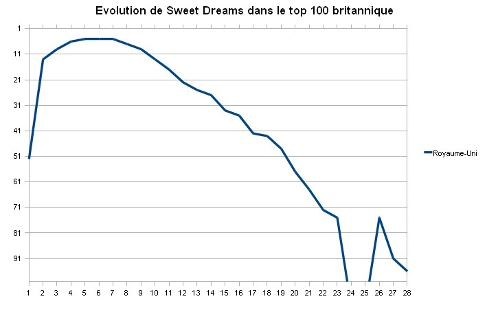 Evolution of Beyoncé Knowles' song Sweet Dreams in the United Kingdom